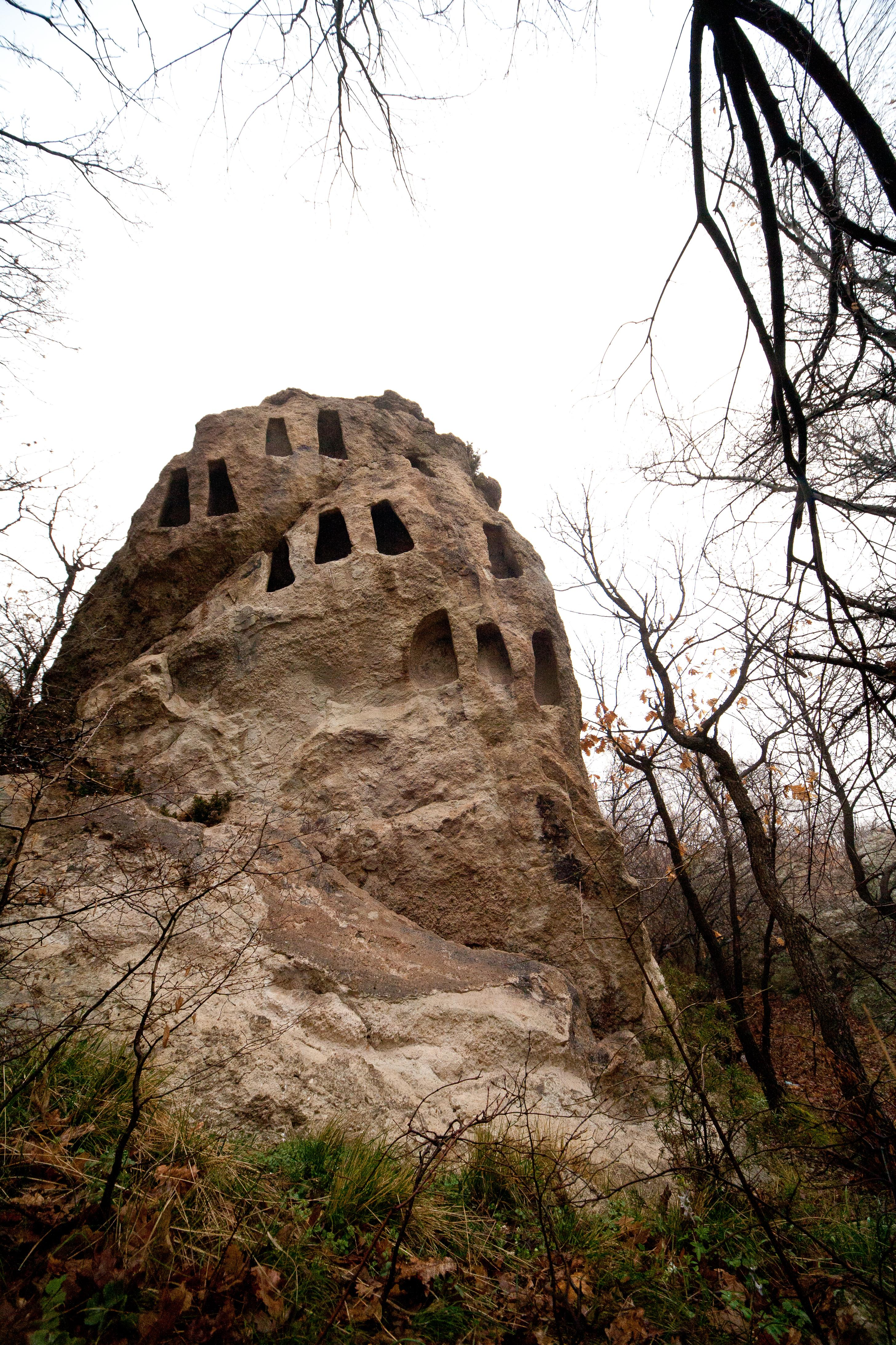 Тракийски култов комплекс край село Ангел войвода, област Хасково